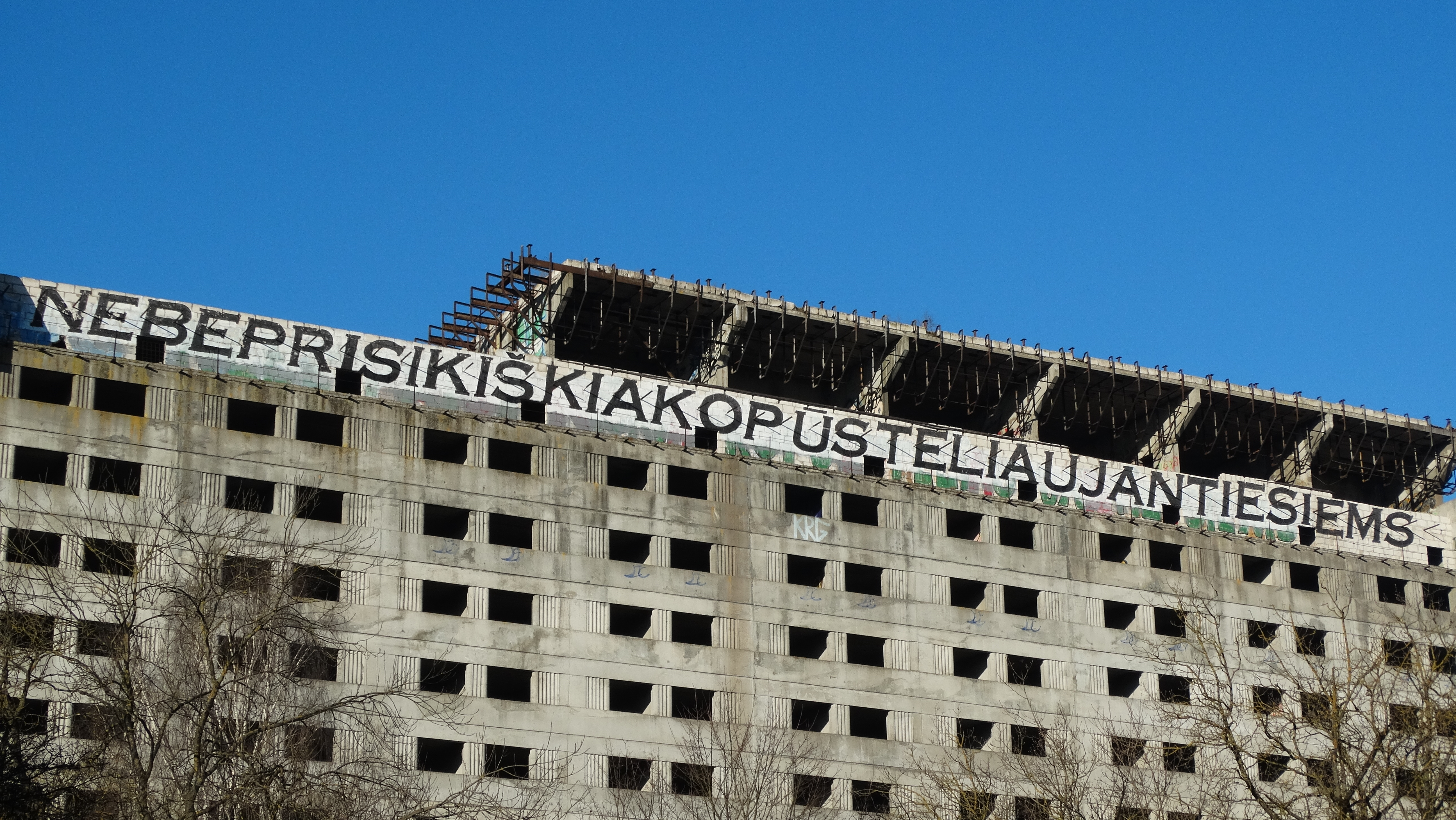 Graffiti of the longest Lithuanian word, Kaunas